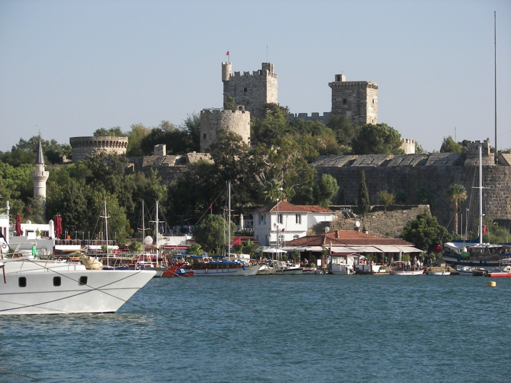 Bodrum Castle